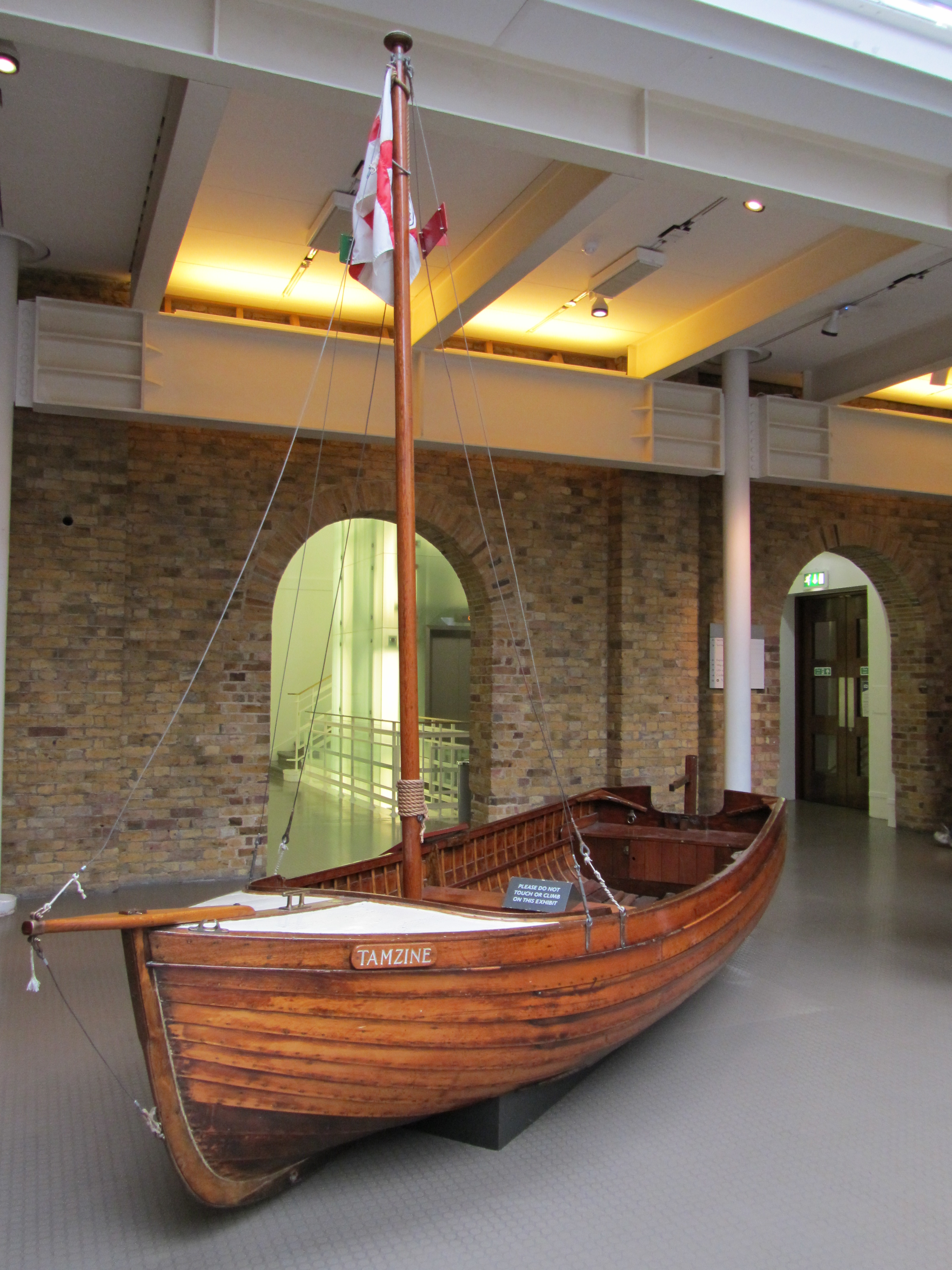 Historic fishing boat Tamzine, on display at Imperial War Museum London, August 2012